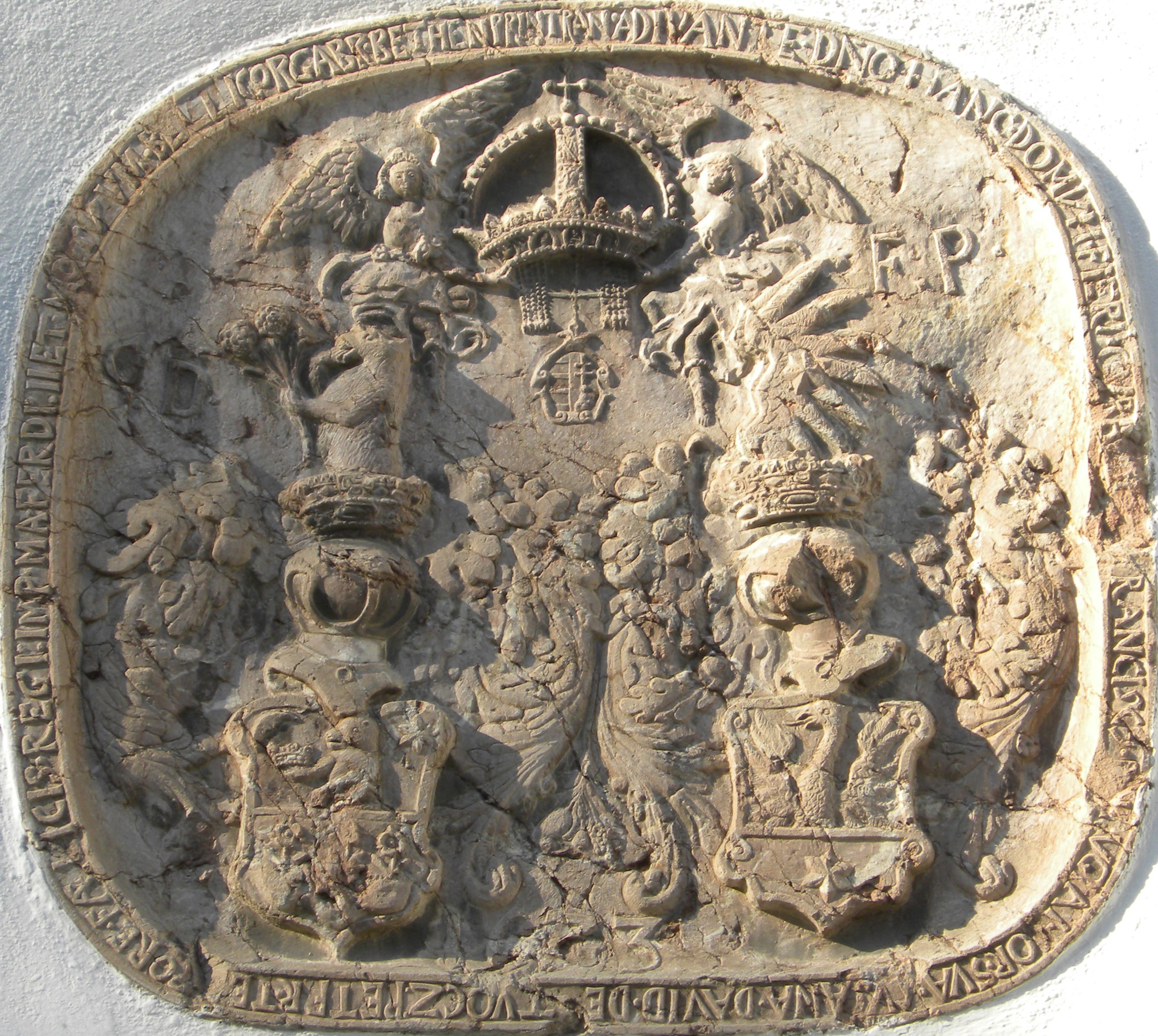 Coats of arms of Ferenc Palugyay and Zsuzsanna Dávid. Facade of manour house "Vranovo", Liptovský Mikuláš-Palúdzka, Slovakia.